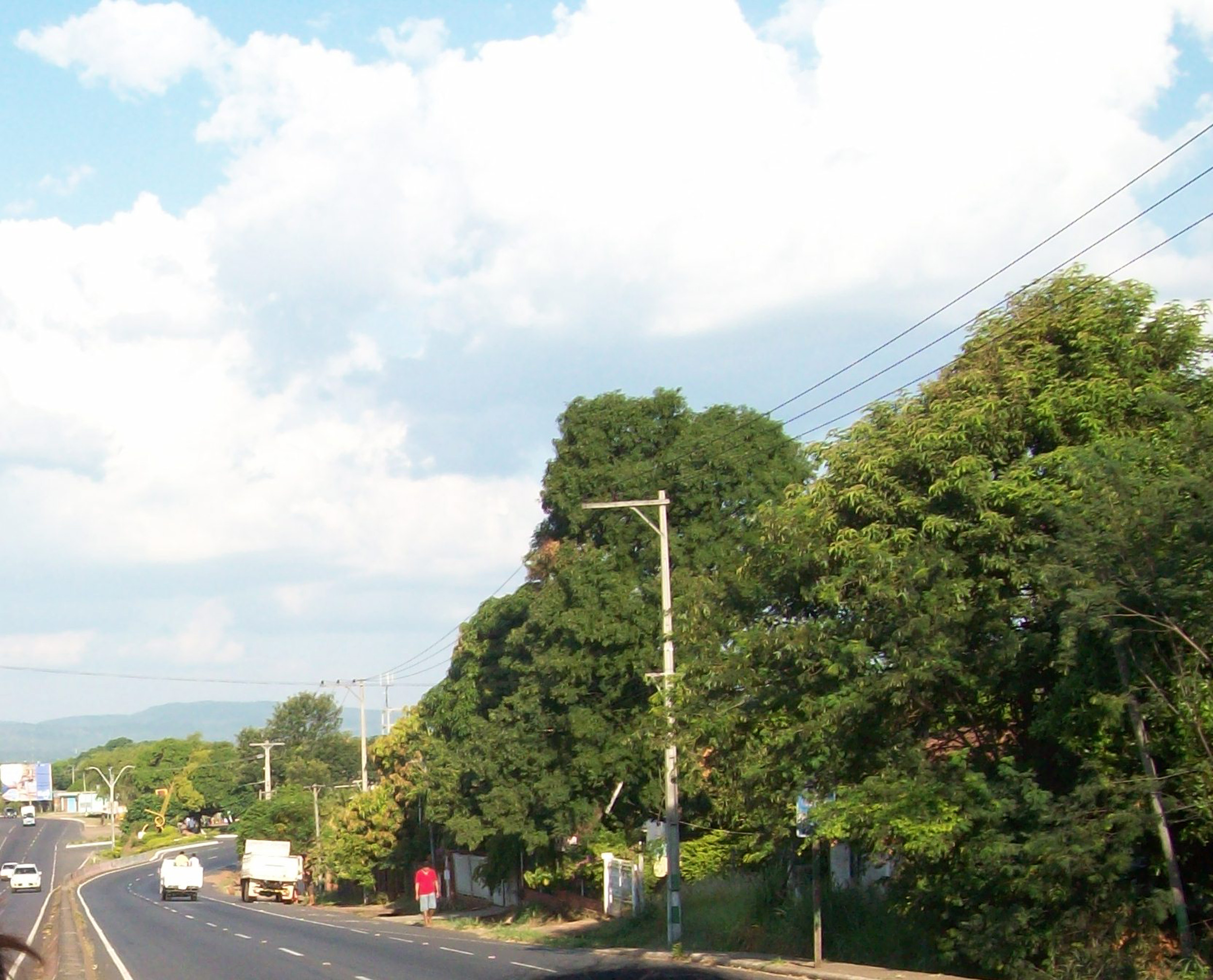 Entrada a ypacaraì.